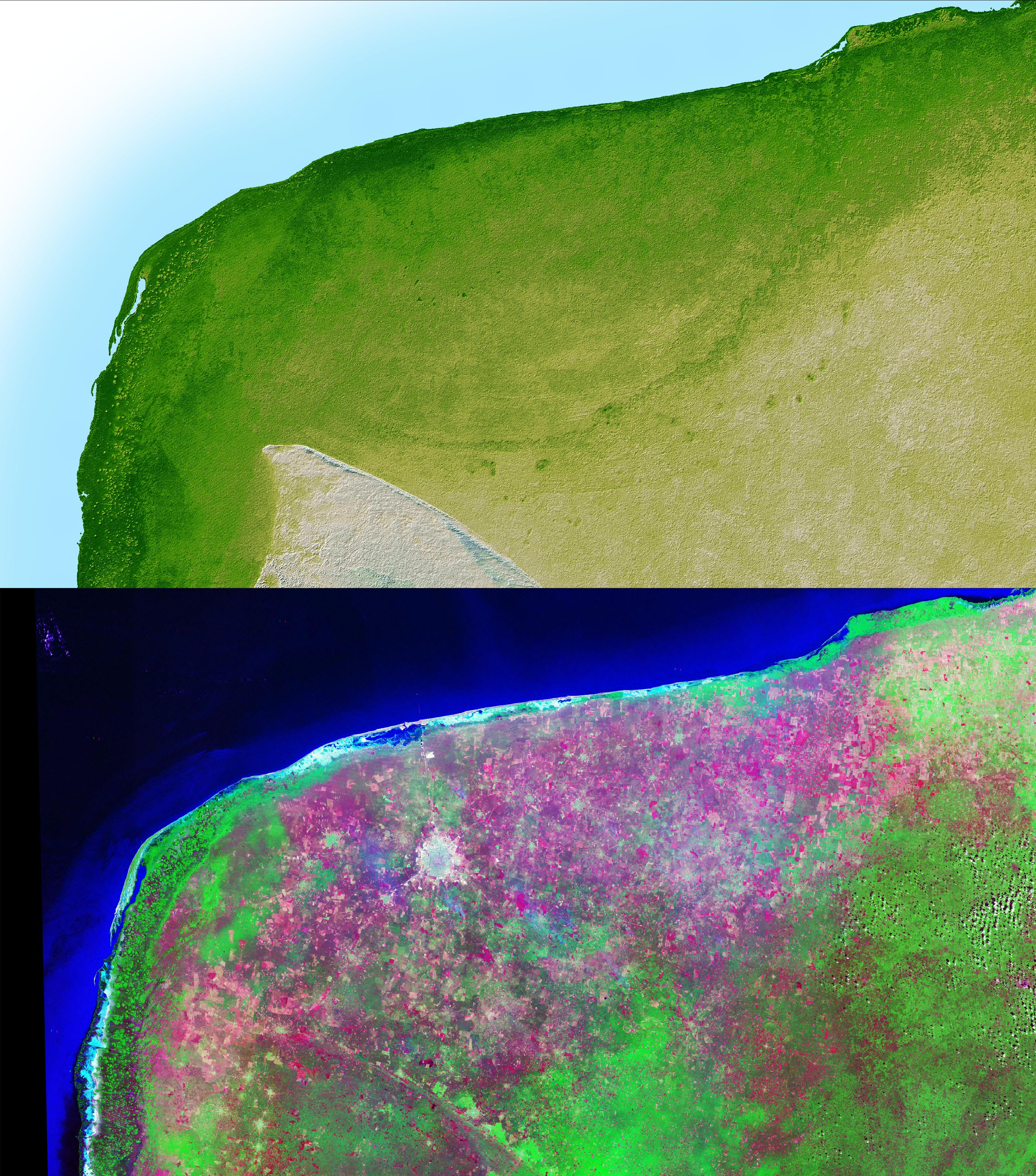 The top picture is a shaded relief image of the northwest corner of Mexico's Yucatan Peninsula generated from Shuttle Radar Topography Mission (SRTM) data, and shows a subtle, but unmistakable, indication of the Chicxulub impact crater. Most scientists now agree that this impact was the cause of the Cretatious-Tertiary Extinction, the event 65 million years ago that marked the sudden extinction of the dinosaurs as well as the majority of life on Earth. The pattern of the crater's rim is marked by a trough, the darker green semicircular line near the center of the picture. The bottom picture is the same area viewed by the Landsat satellite, and was made by displaying the Thematic Mapper's Band 7 (mid-infrared), Band 4 (near-infrared) and Band 2 (green) as red, green and blue. These colors were chosen to maximize the contrast between different vegetation and land cover types, with native vegetation and cultivated land showing as green, yellow and magenta, and urban areas as white. The circular white area near the center of the image is Merida, a city of about 720,000 population. Notice that in the SRTM image, which shows only topography, the city is not visible, while in the Landsat image, which does not show elevations, the trough is not visible.